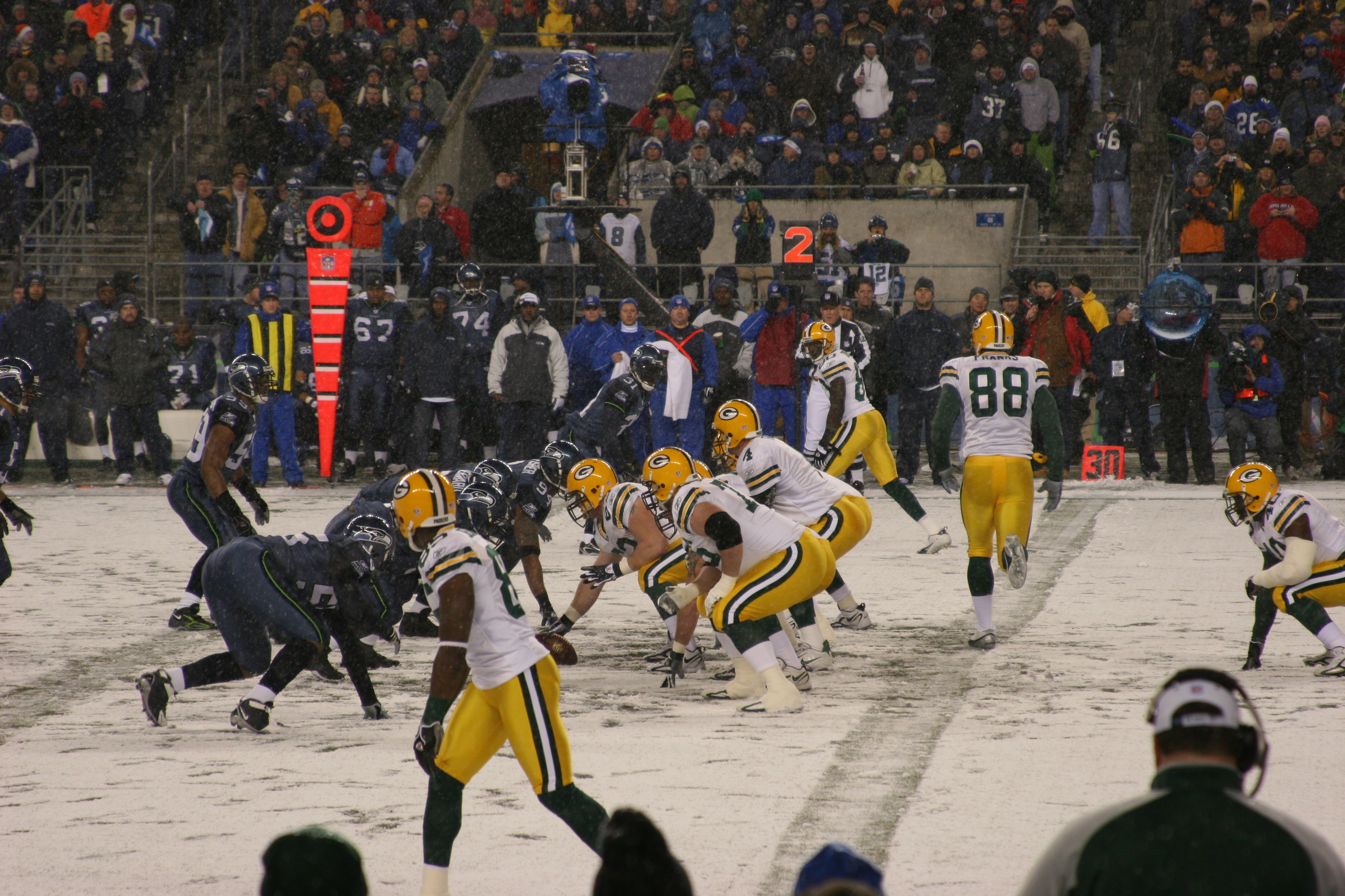 Brett Favre and Green Bay Packers offense lines up in a Monday Night Football game vs Seattle Seahawks Nov. 27, 2006 at Qwest Field.